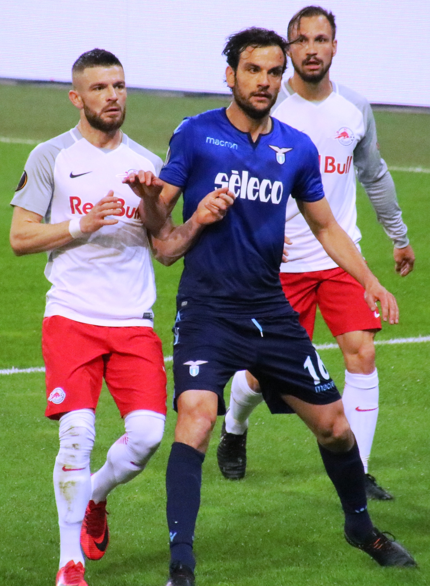 UEFA euro League Quarterfinal 2nd leg